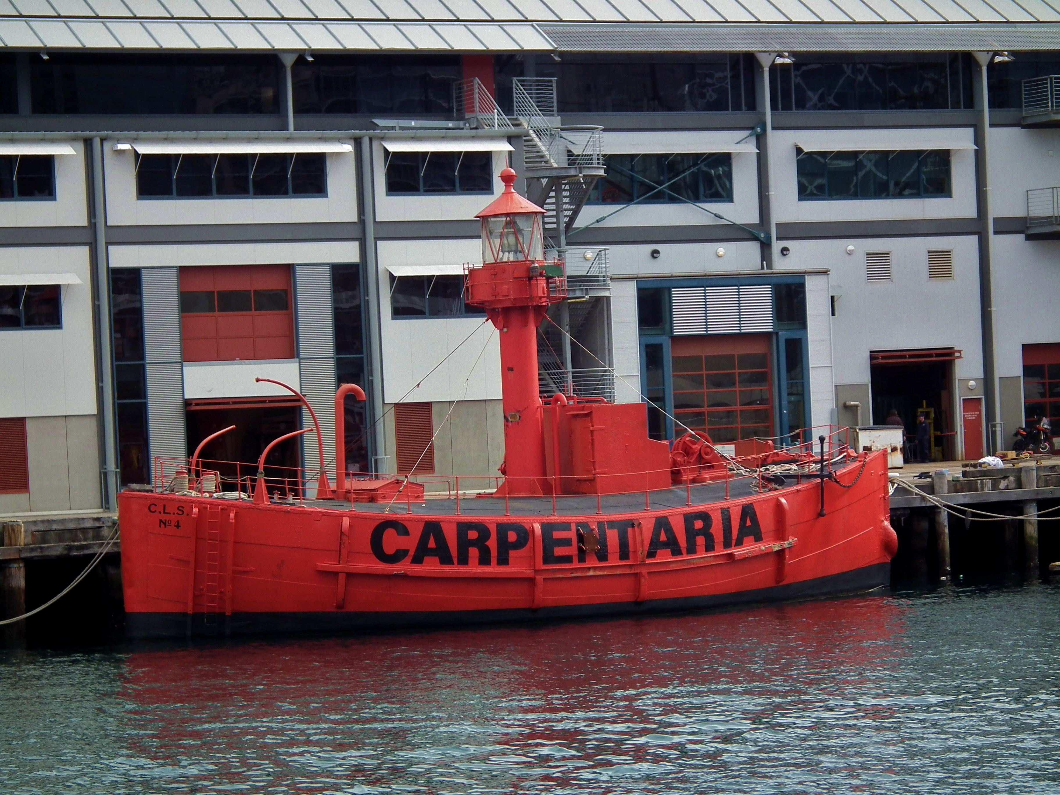 Lightship CLS4 Carpentaria. One of four lightships built for the Commonwealth of Australia in 1916 and 1917. Now at the National Maritime Museum, Darling Harbour, New South Wales.